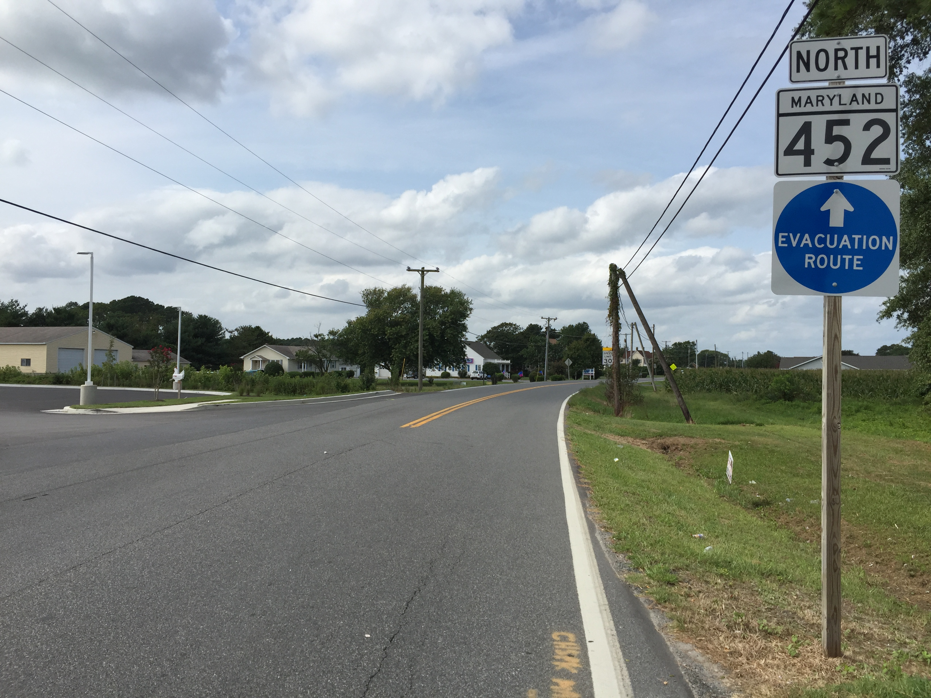 View north along Maryland State Route 452 (Seahawk Road) at Maryland State Route 707 (Grays Corner Road) in Briddletown, Worcester County, Maryland